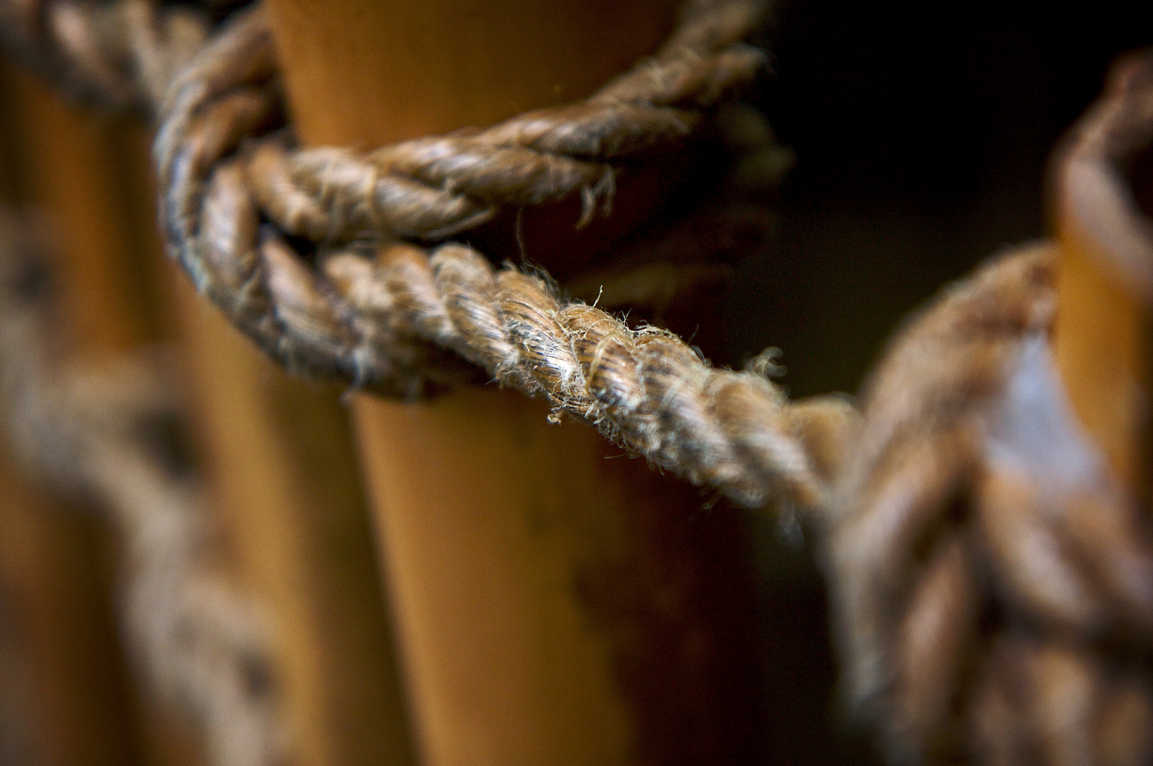 Hemp rope at the Dallas, Texas, U.S.A. World Aquarium